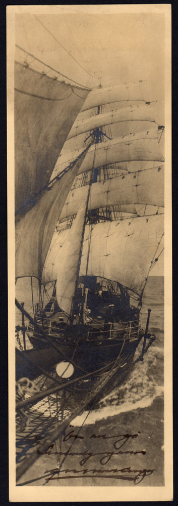 A black and white photograph of RRS "Discovery" signed by Captain K.N. MacKenzie - inscribed 'On we go, sincerely yours'. The leader of the BANZARE expedition was Sir Douglas Mawson, MacKenzie replaced Captain John King Davis for the second summer of the scientific research expedition, a small bay in the Amery Ice Shelf is named after him.